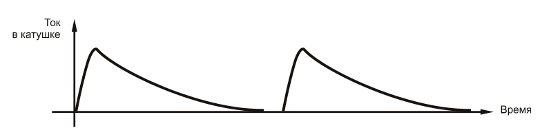 форма парного стимула, выдаваемая индуктором магнитного стимулятора